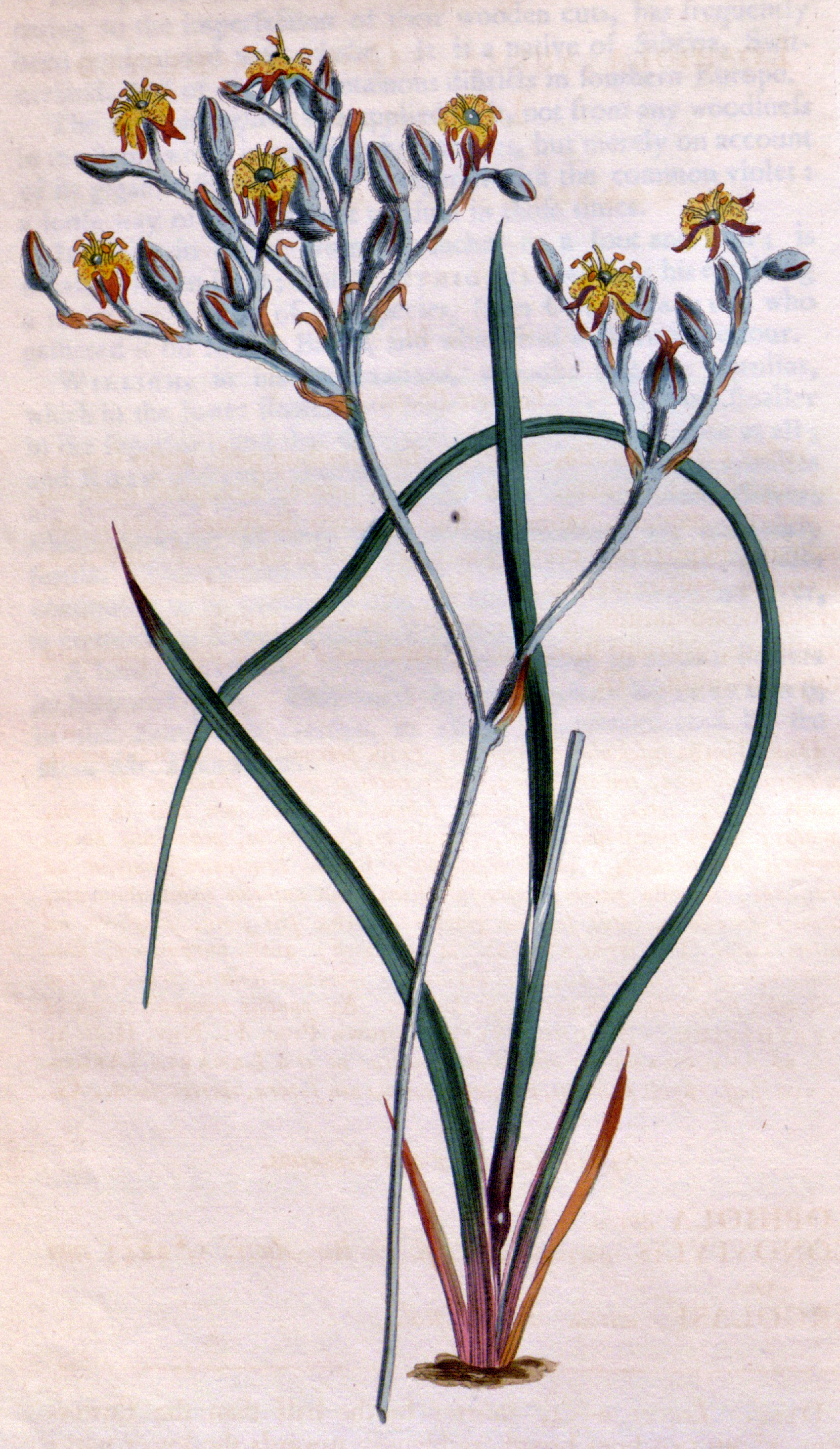 Lophiola aurea